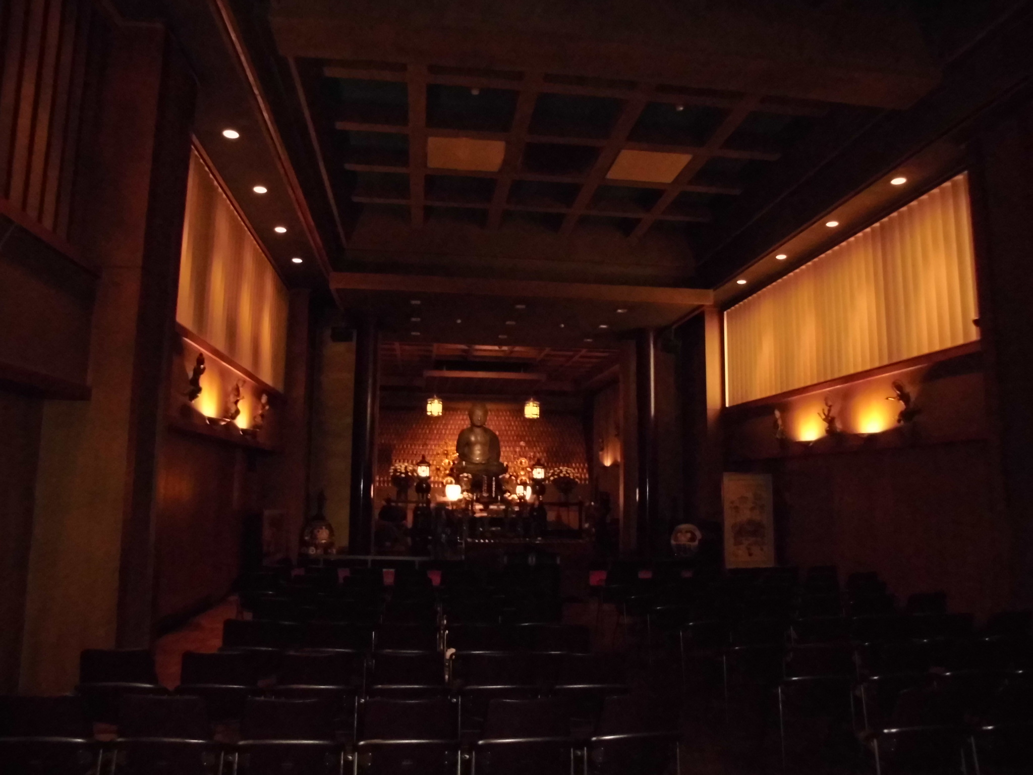 Interior of the Nenbutsu-Hall of the Ekō-in Temple, Tokyo